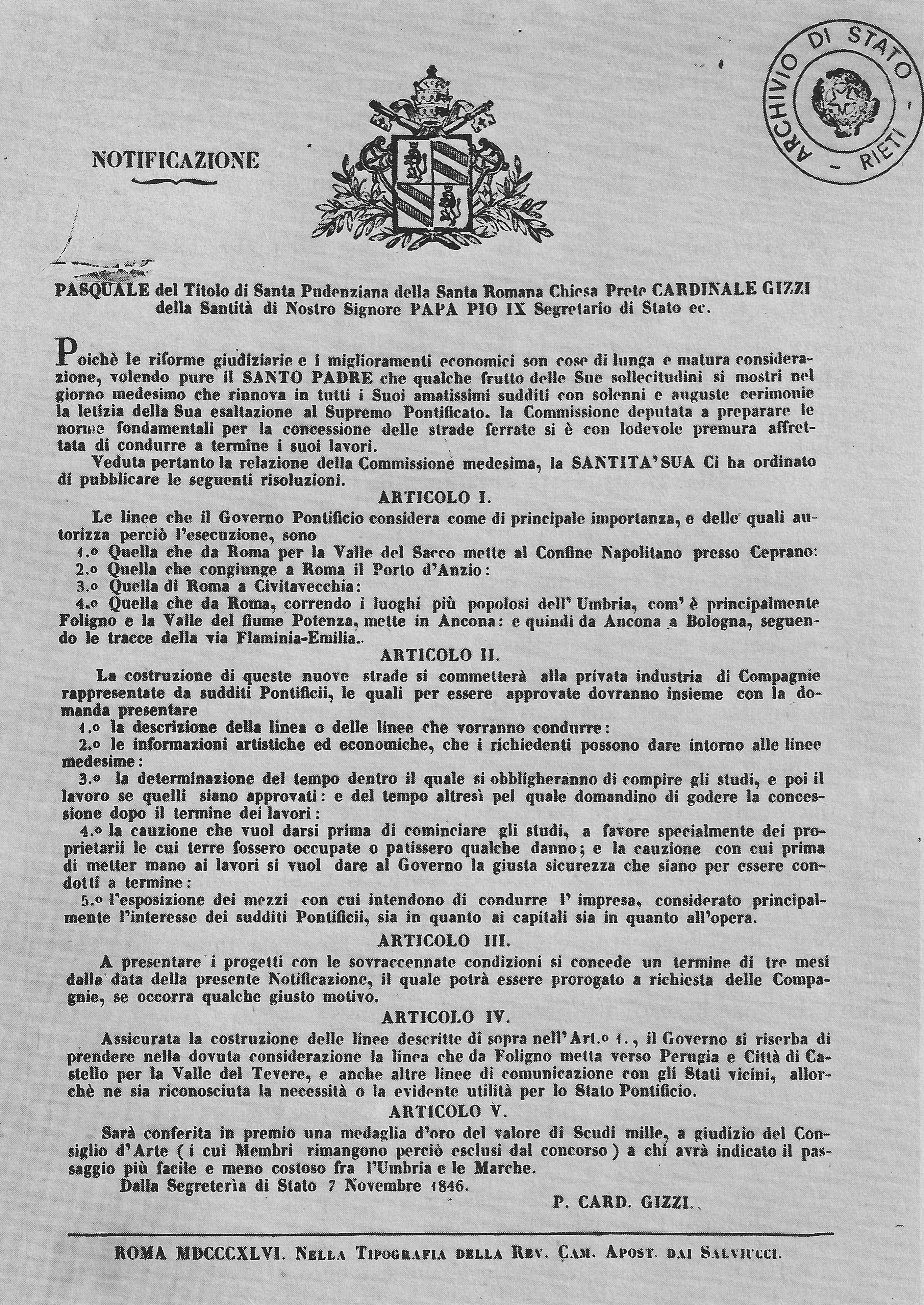 Notification released by the Papal States on 7 November 1846 on the regulation of railway concessions, in which the construction of the Rome-Naples, Rome-Anzio, Rome-Civitavecchia and Rome-Ancona-Bologna railways is established